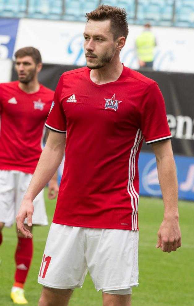 Eduard Buliya in action for FC SKA-Khabarovsk against FC Dynamo Moscow.